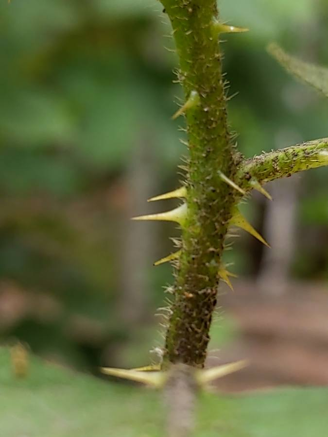 Solanum carolinense, horsenettle, stem